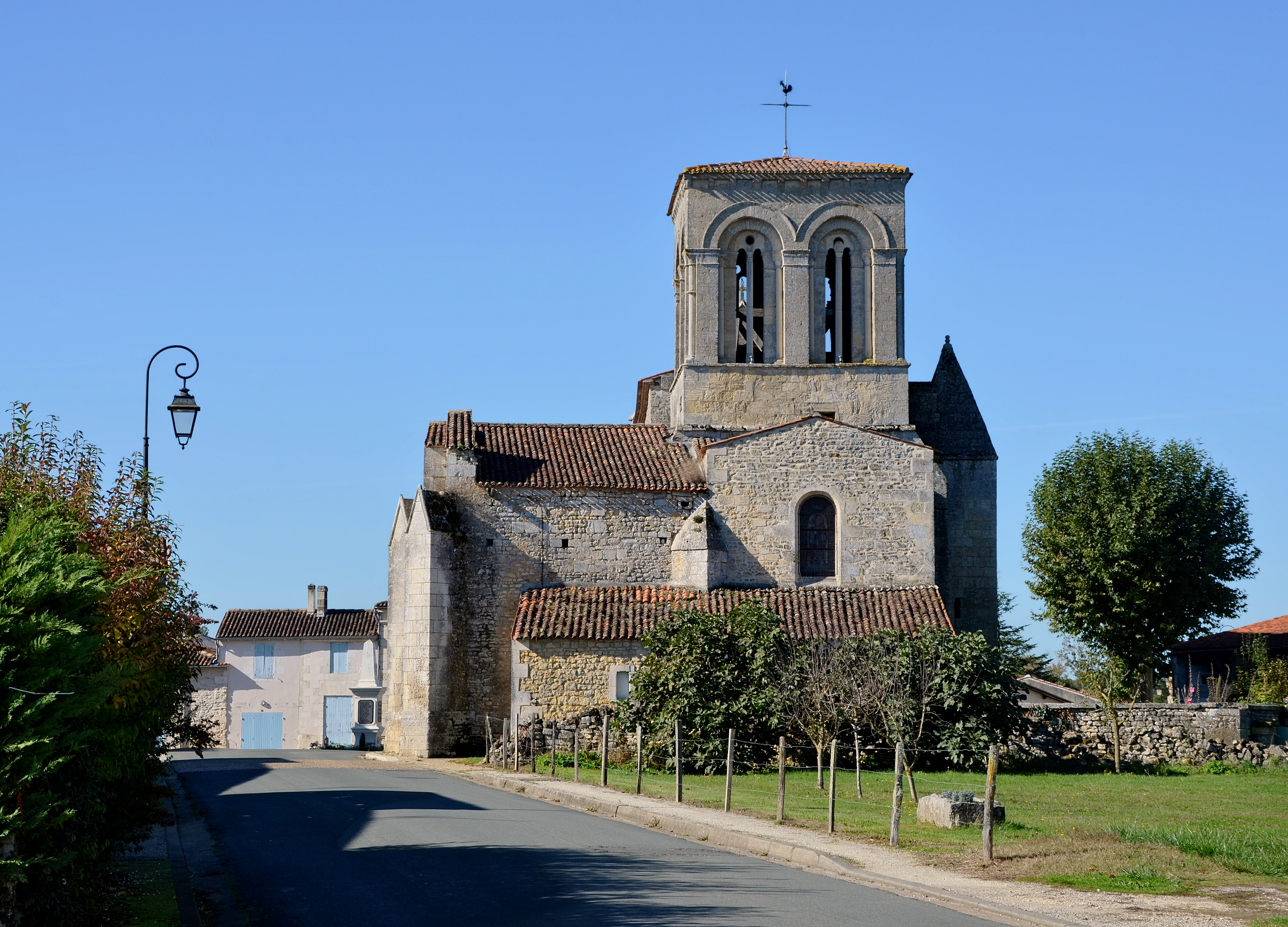 The church as seen from road D 136, Montpellier-de-Médillan, Charente-Maritime, France.